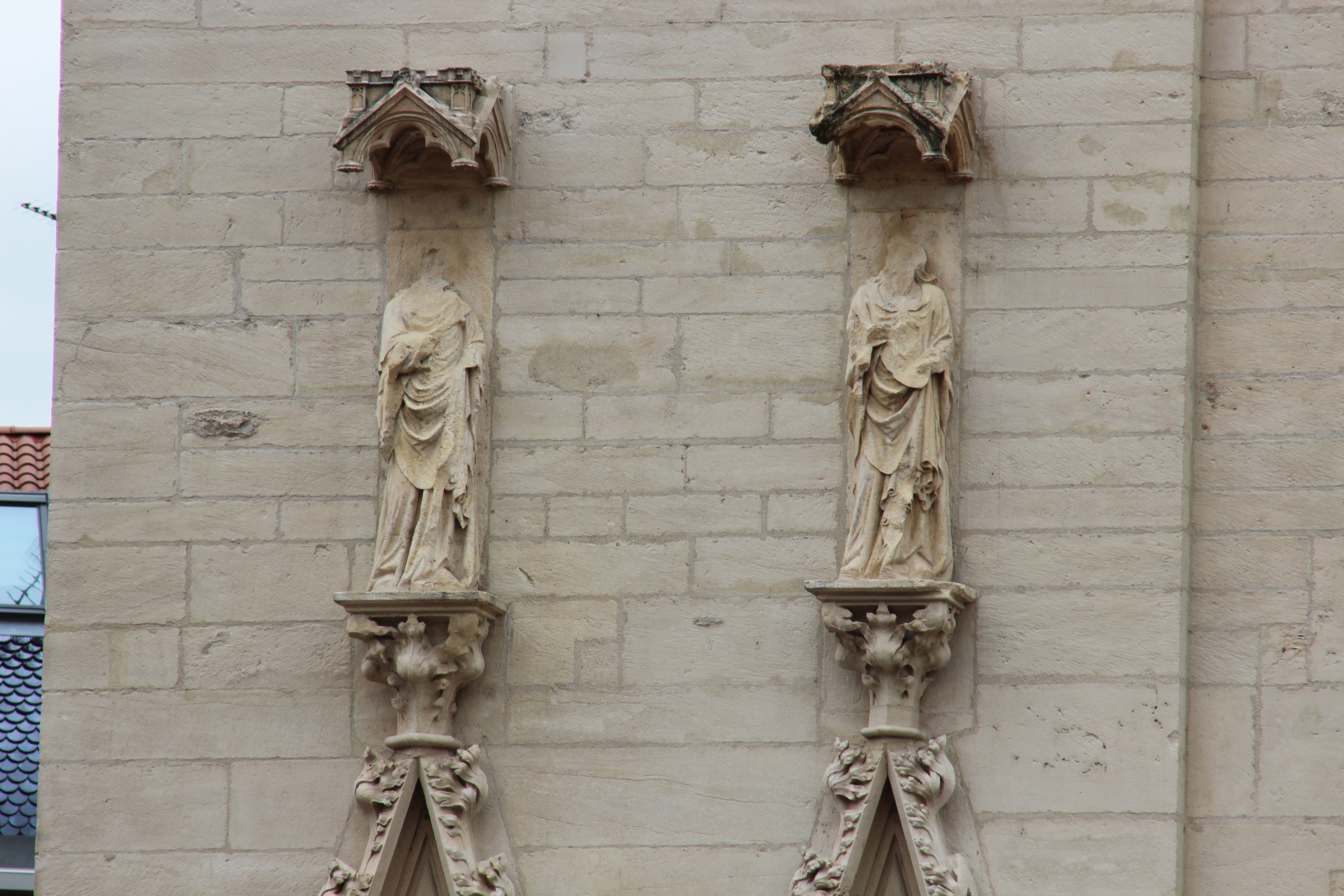 Saint-Jean cathedral in Lyon.